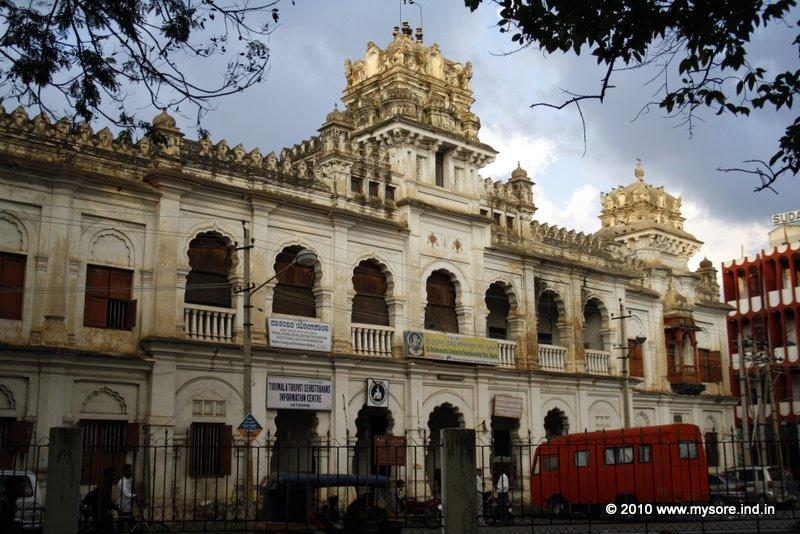 Parakala Mutt of Mysore - as it stands today